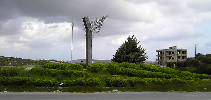 Place of the abduction of the German general Heinrich Kreipe near Archanes, Crete